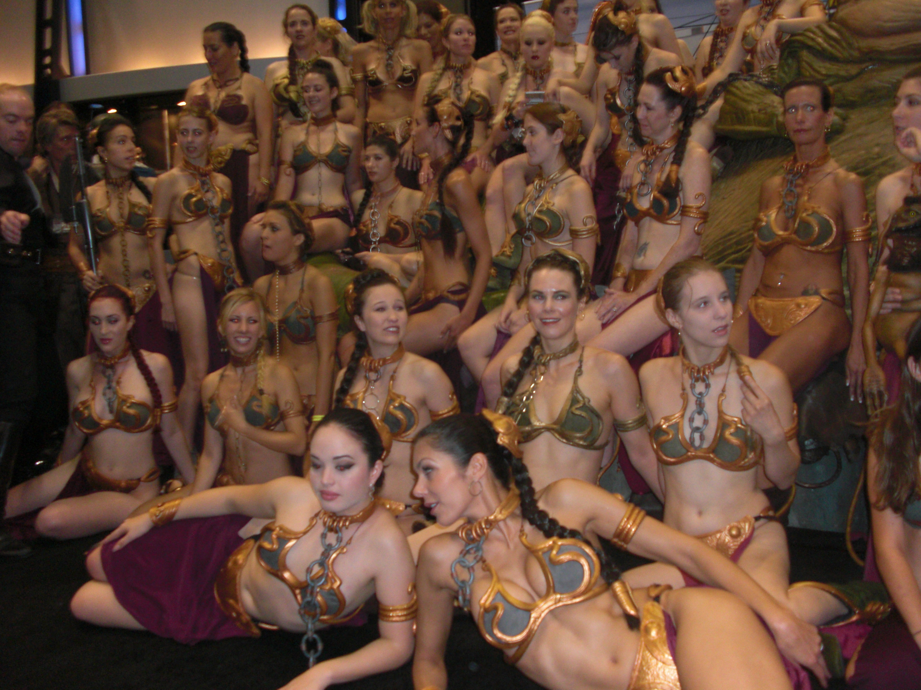 Slave Leia Shoot, Celebration V.